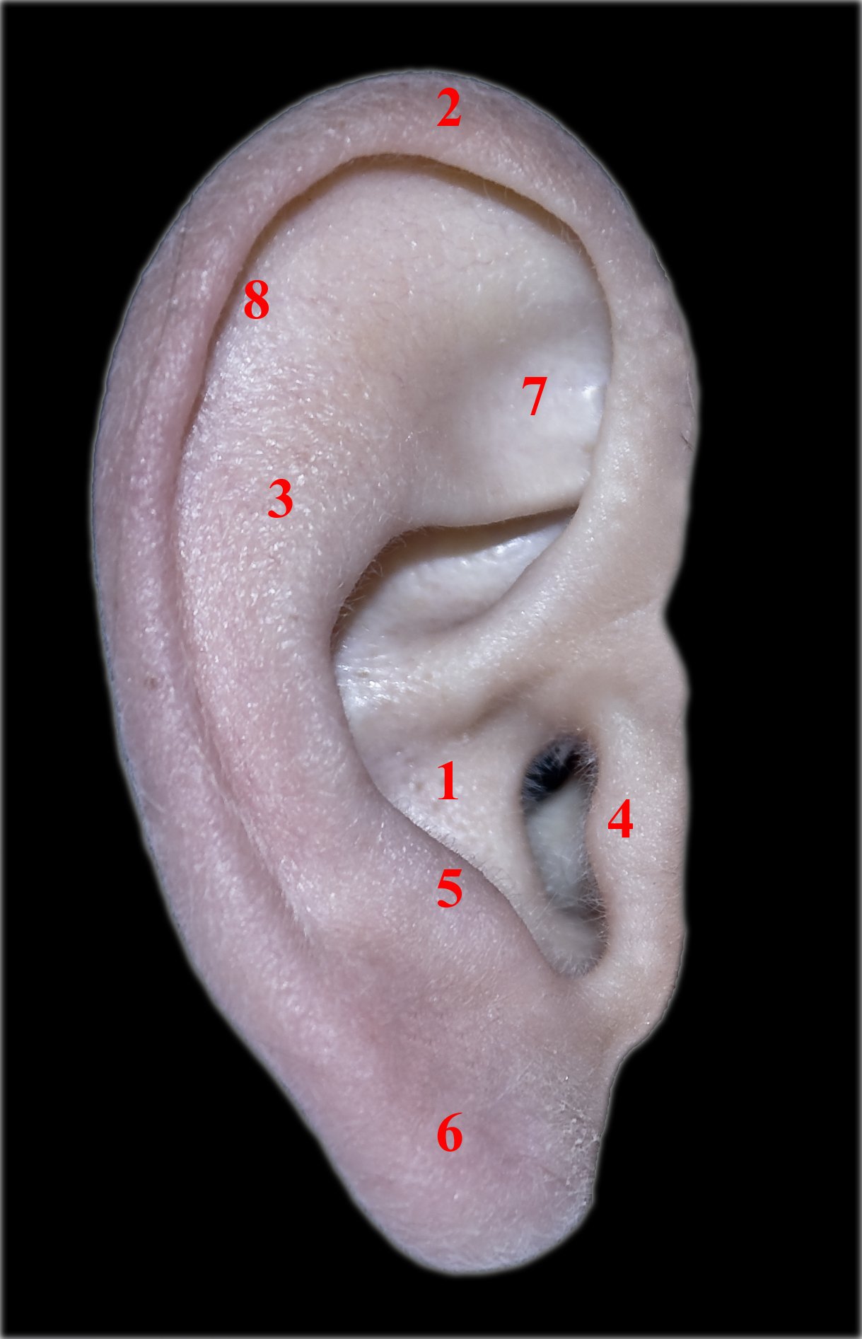 Right Pinna : 1)Concha 2)Helix 3) Anti-helix 4)Tragus 5)Anti-tragus 6)Lobule 7)Fossa triangularis 8)Scapha